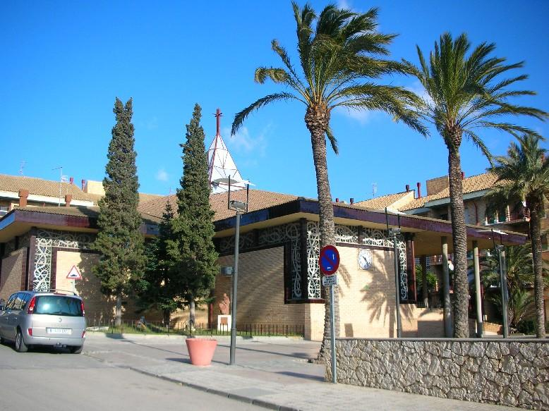 Campredó, a town near Tortosa. Local church.